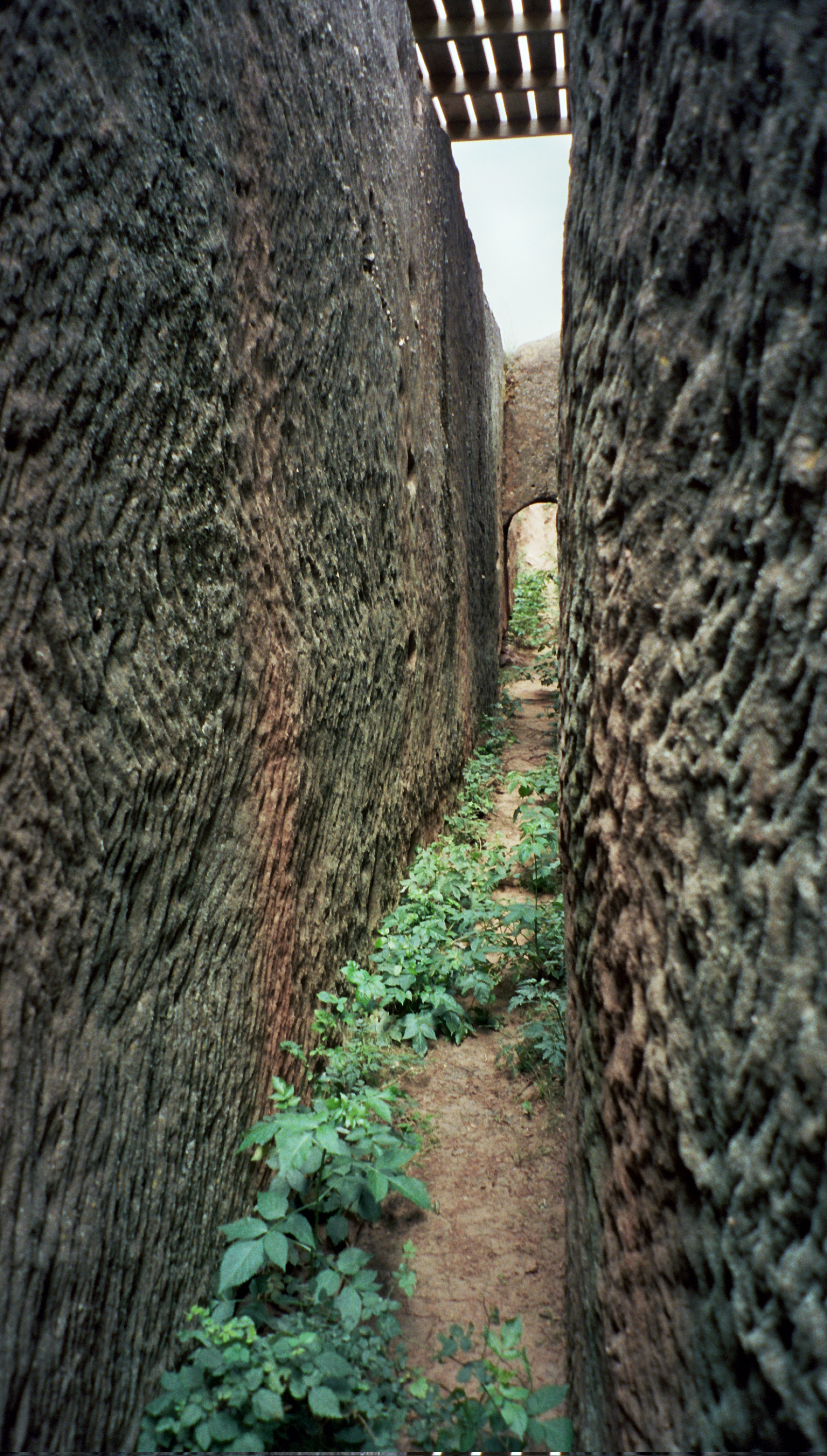 Acueduct of Termancia (Tiermes), Soria (Spain).